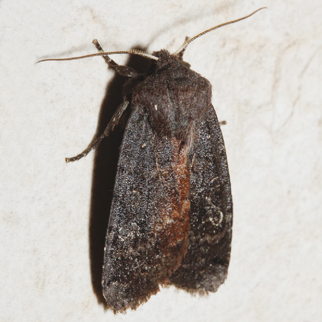 Homoglaea carbonaria, Vancouver Island, British Columbia, Canada